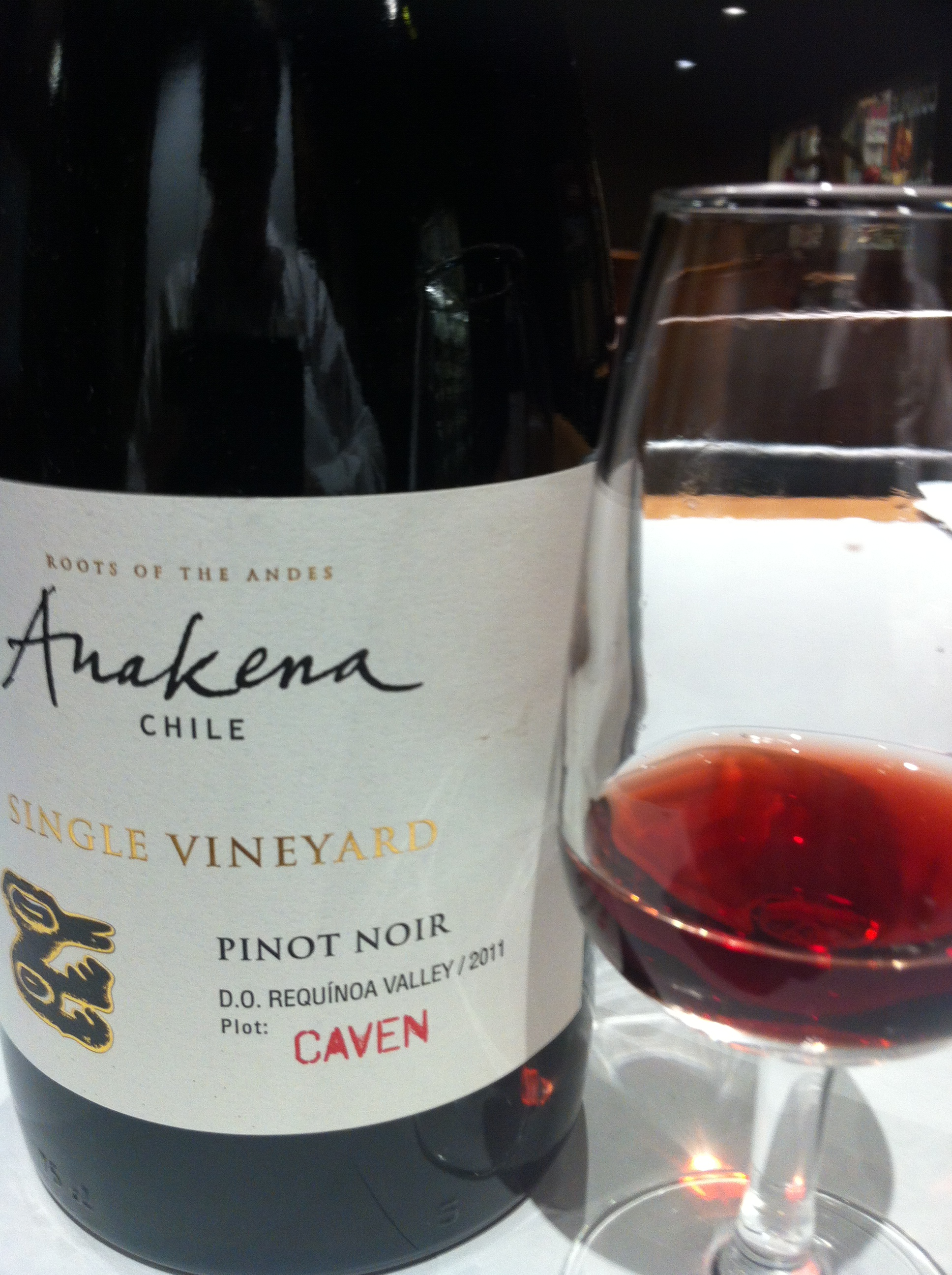 Pinot noir wine from Chile's Requinoa Valley DO